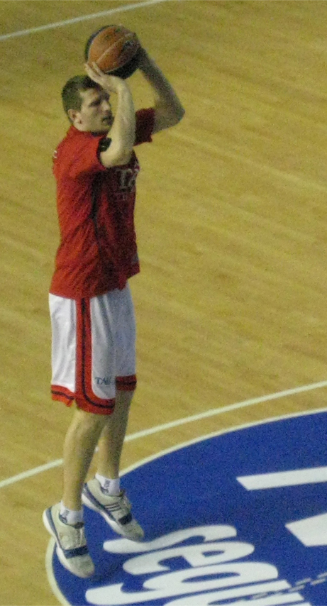 Mirza Teletović warming up in the second game of the 2008 ACB Finals.